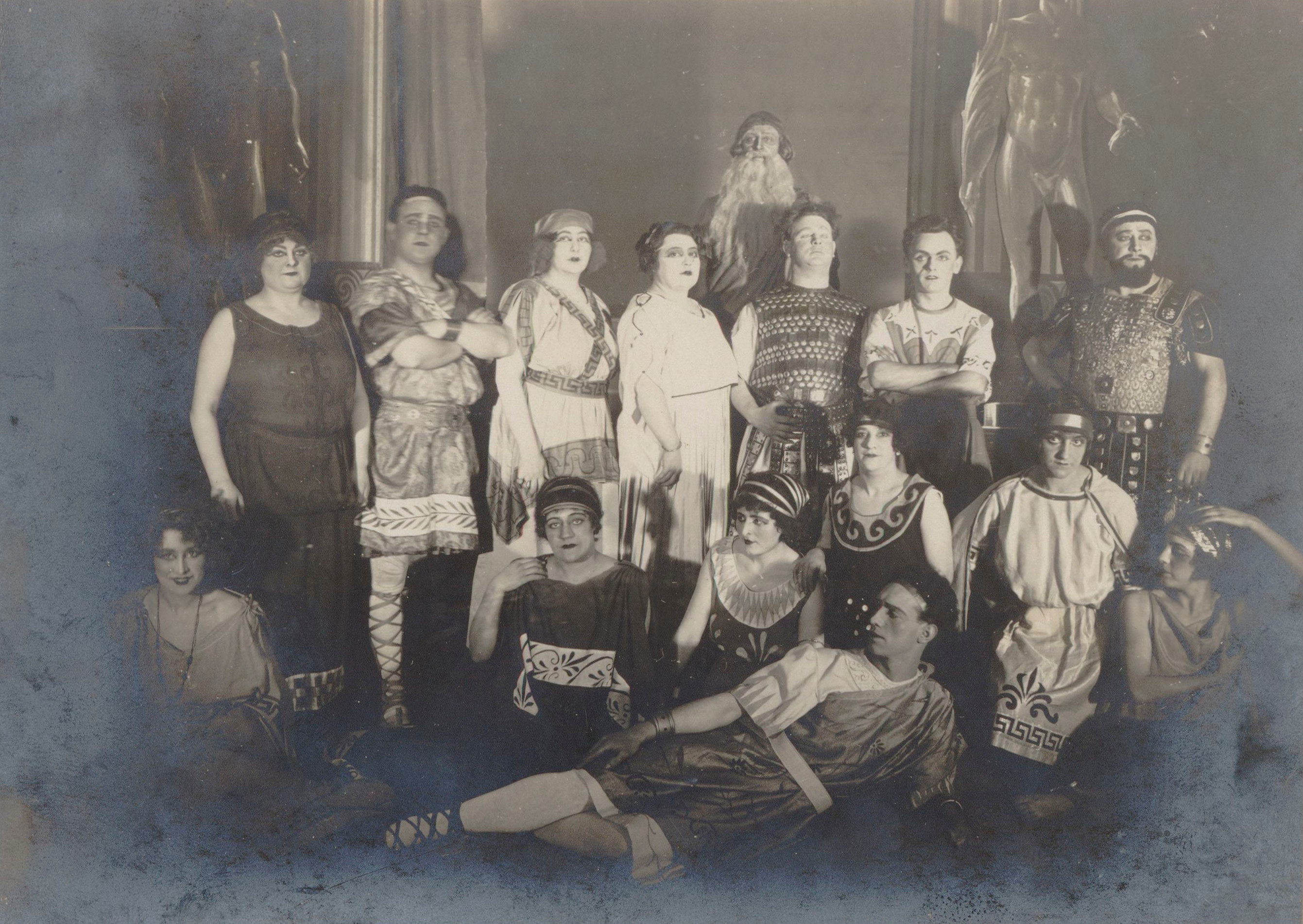 Gabriel Fauré - Pénélope - interpretes of a performance from 1924 at the Opéra d'Anvers